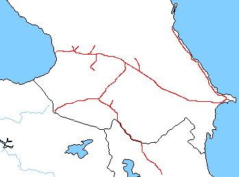 Transcaucaus Railway as of 1916